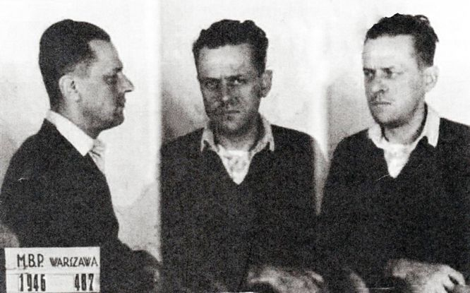 Ksawery Grocholski (1903-1947) – Polish landowner and arictocrat (count), during WW II soldier of intelligence of Home Army (Armia Krajowa), took part in Warsaw Uprising. After the war member of anti-communist resistance in Poland (1944–1946), arrested by communist political police, sentenced to death in show trial in January 1947, executed.